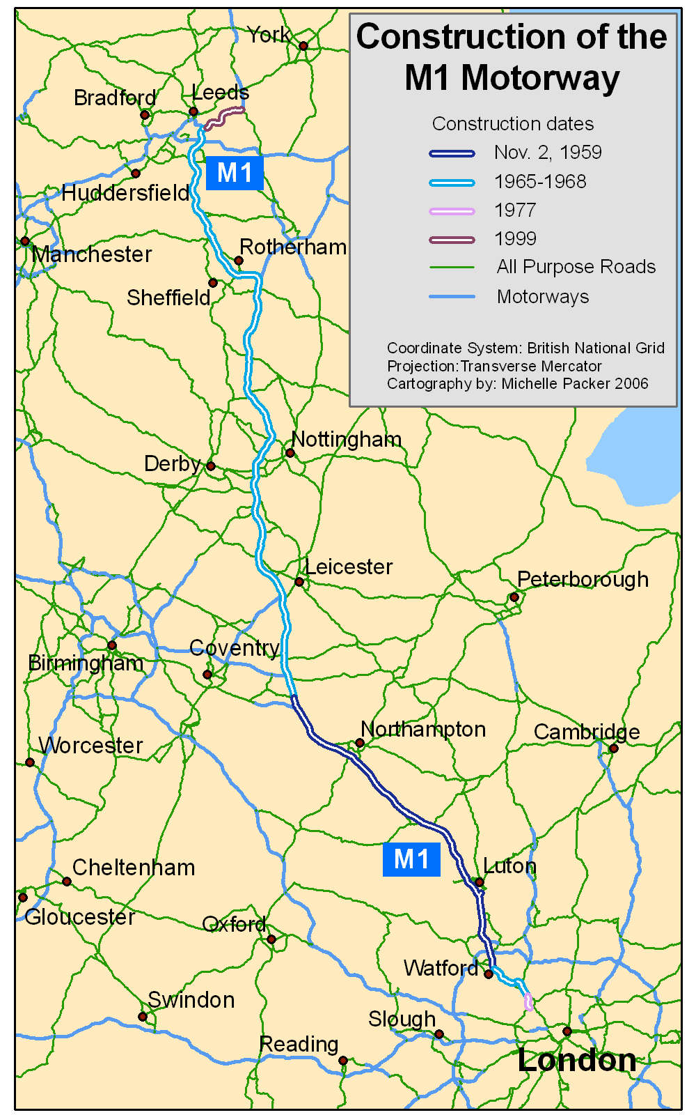 I created this map for the M1 motorway page of Wikipedia using ESRI Arcmap9.2 ArcInfo software. And hereby release it to Public Domain.Seaweege 21:37, 21 December 2006 (UTC)